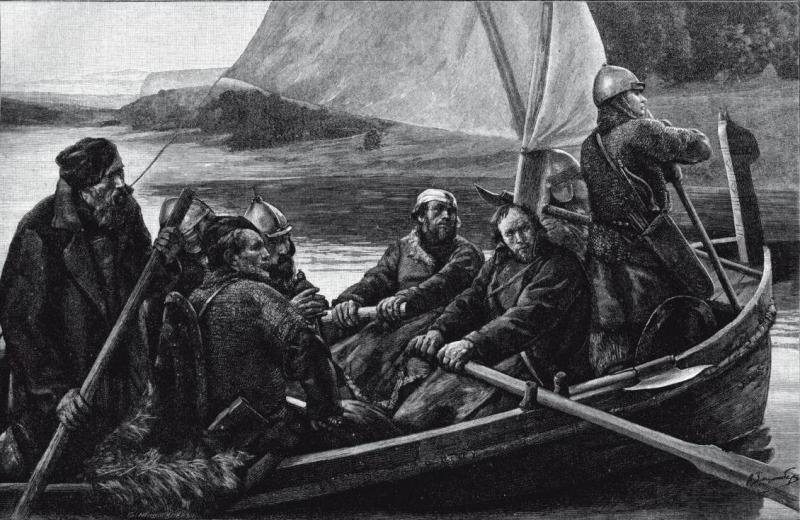 The Ushkuiniks. Novgorodian free warriors.